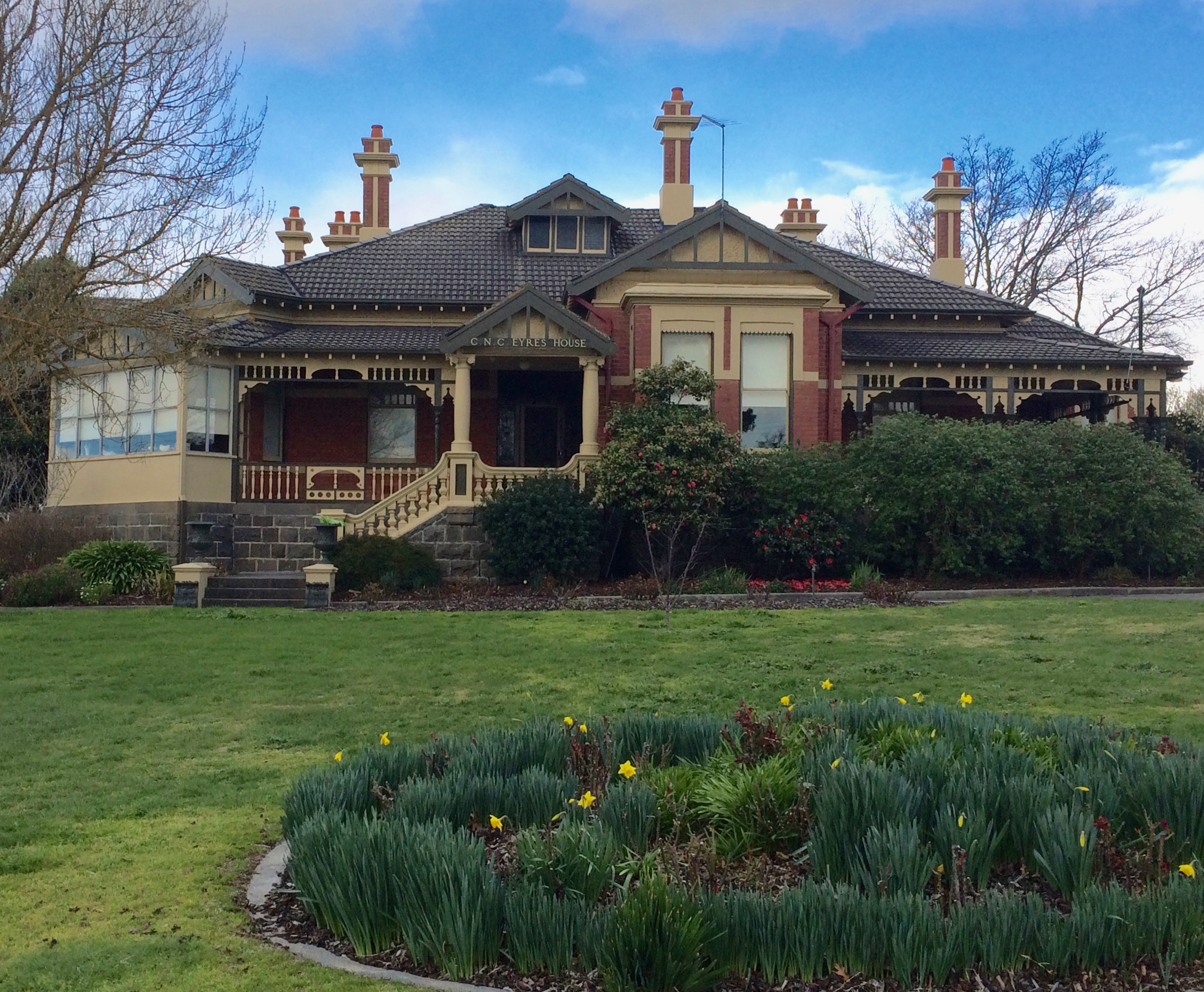 Heritage house, Eyres House, formerly known as Balmoral, at 810 Ligar St., Ballarat, Victoria, Australia